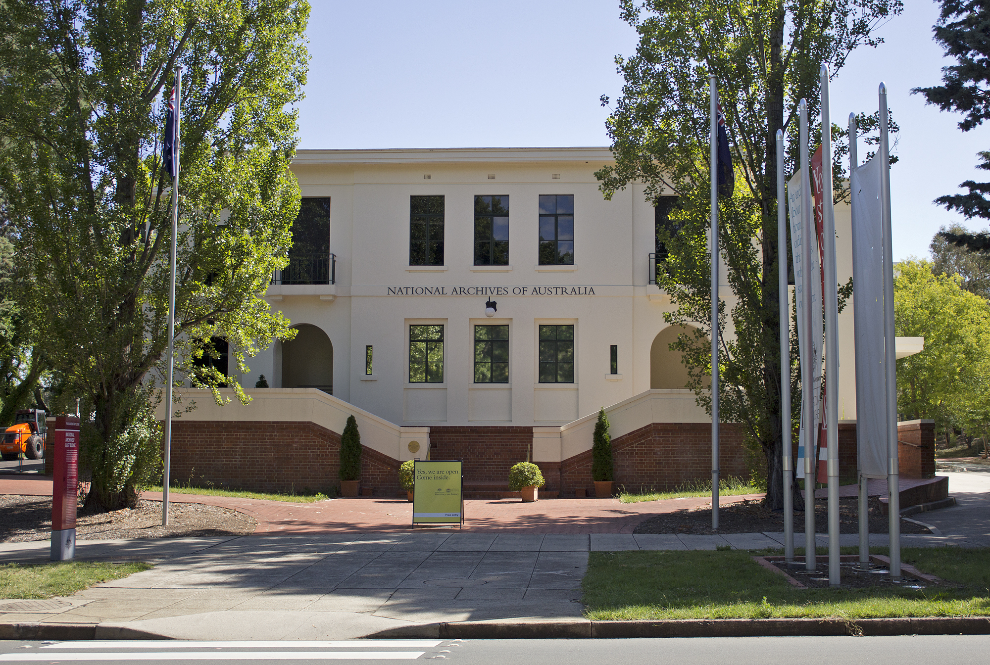 National Archives of Australia in Parkes, Australian Capital Territory.